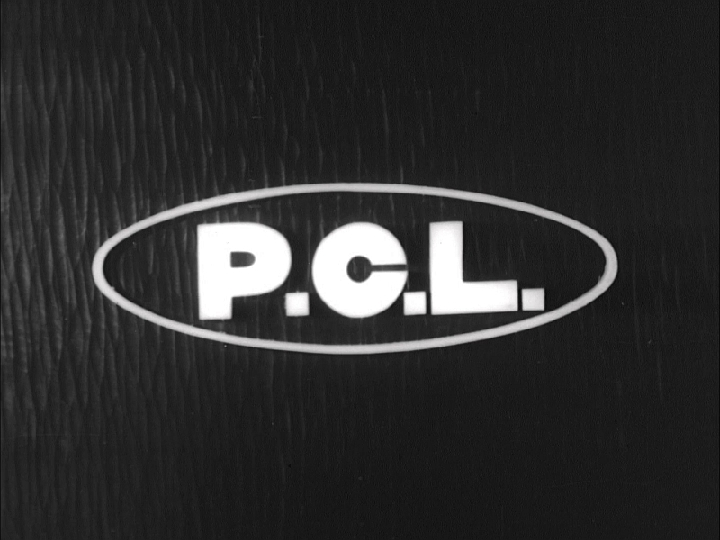 P.C.L. logo from Tsuma yo bara no yo ni (1935) directed by Mikio Naruse